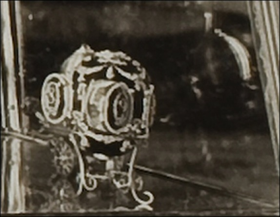 Photograph detail of the exhibition of the Imperial Family’s Fabergé collection held in the Von Dervis Mansion on the English Embankment, St. Petersburg (Russia) in March 1902. The exhibition was held in aid of the Imperial Women's Patriotic Society Schools and was the first public exhibition ever to display Fabergé's work in Russia. It was organised under the auspices of the Tsarina Alexandra Feodorovna.